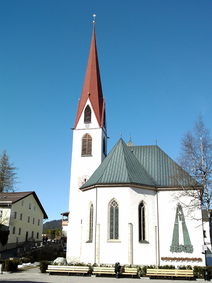 Church St. Oswald and parsonage (left) at Seefeld in Tirol